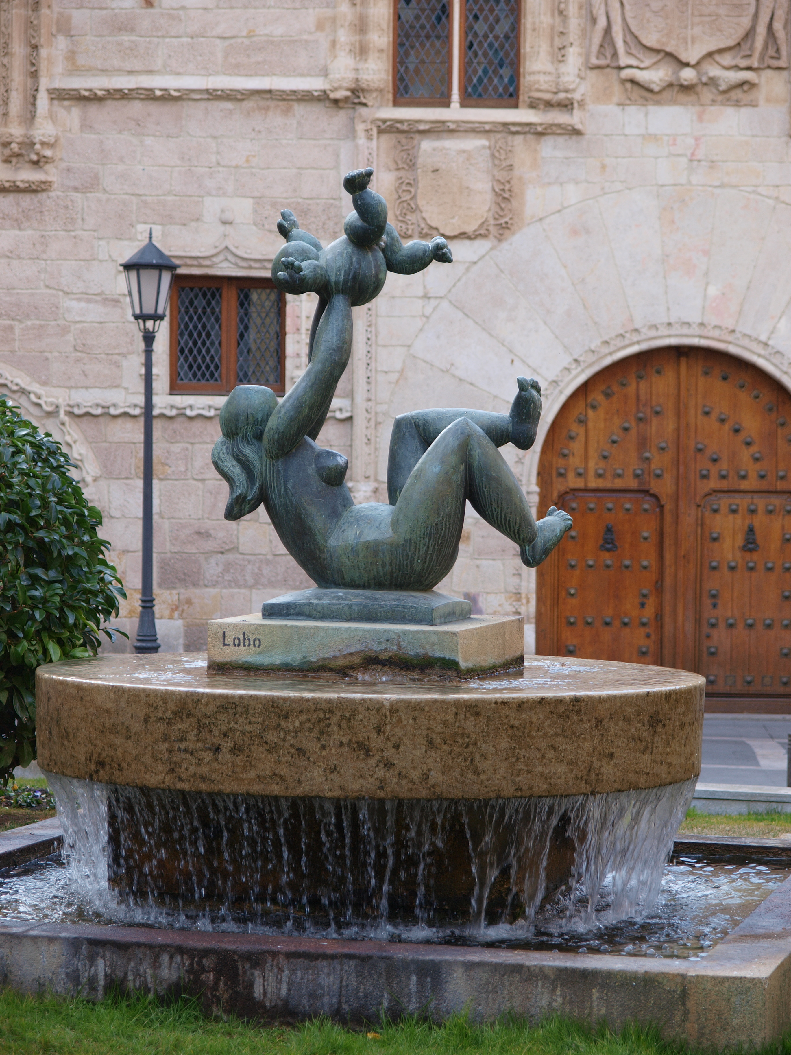 Statue by Baltasar Lobo: Mother and Child (bronze, 1980), in the Momos Square (Zamora, Spain); the building in the background is the Momos Palace, nowadays the Province's Court